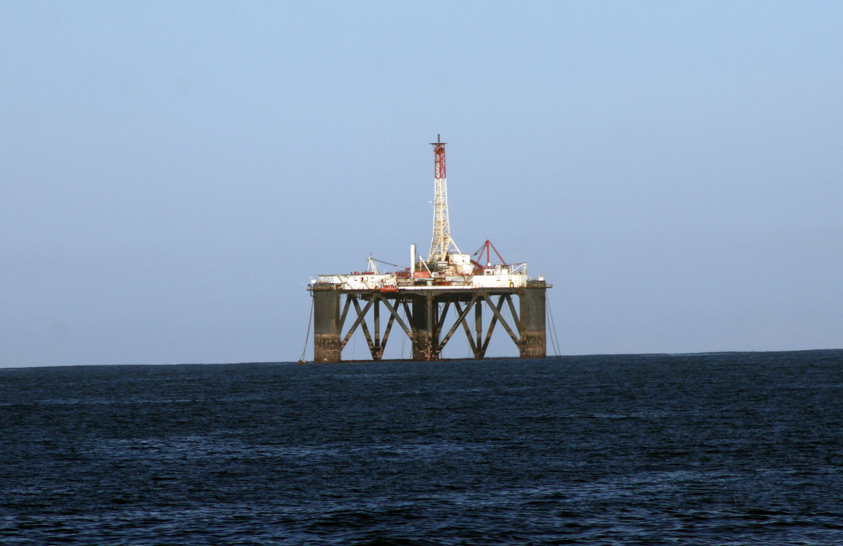 PetroSA Floating Production Storage and Offloading Facility "Orca" IMO 8755015